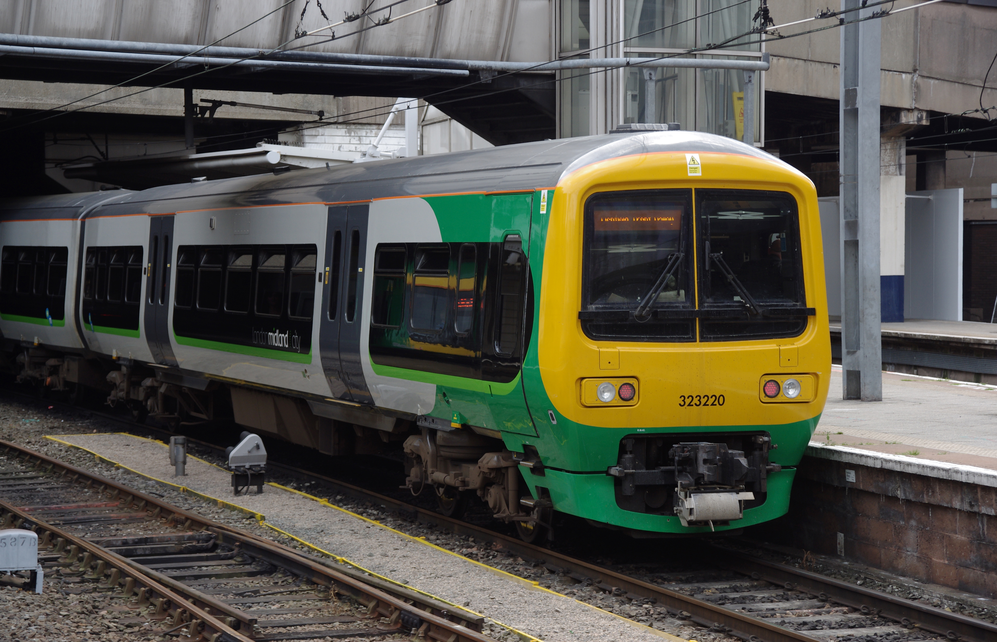 London Midland 323220 departs Birmingham New Street headed for Lichfield Trent Valley.